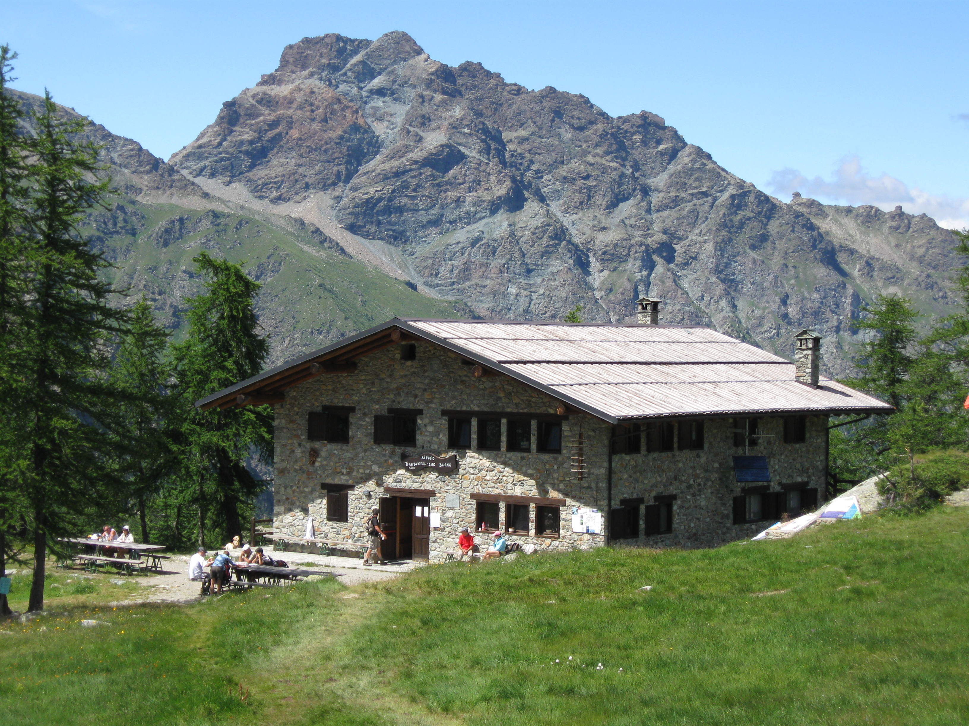 "Rifugio Guido Barbustel - Lac Blanc" - Natural park of Mont Avic